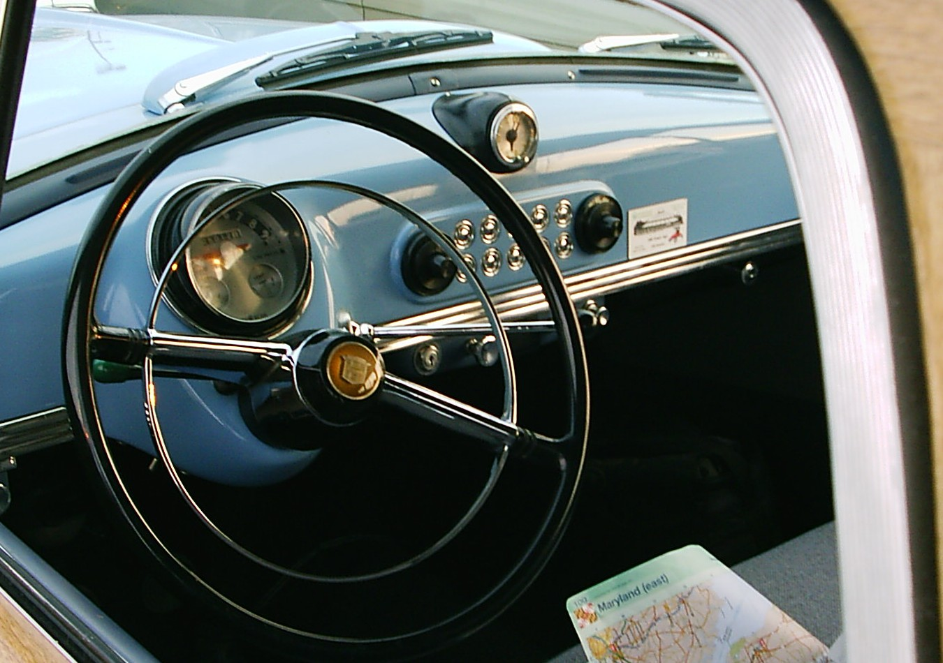 Nash Motors vehicle - 1952 Nash Rambler - blue 2-door wagon, interior